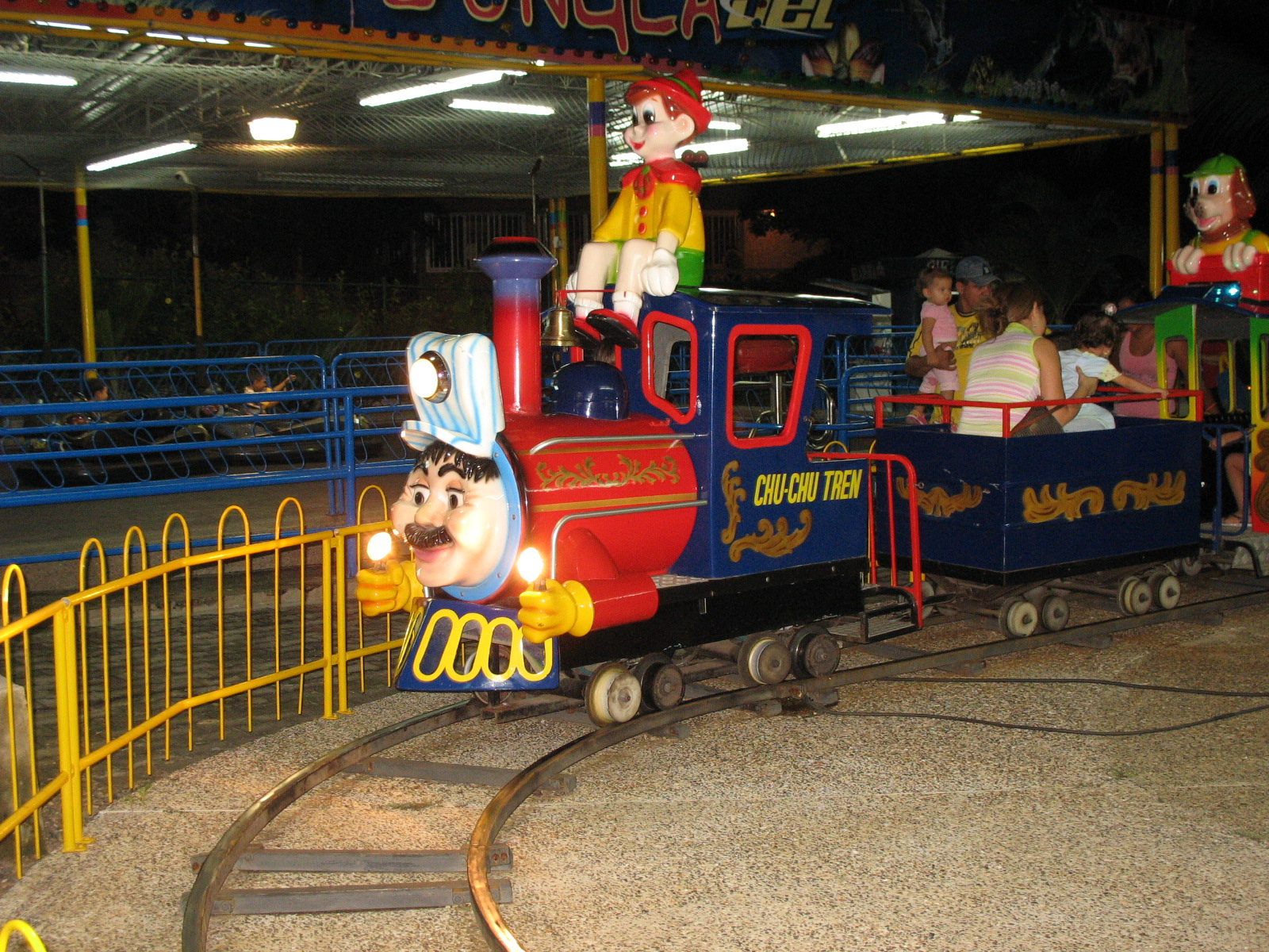 Barranquilla - Venezuela Park